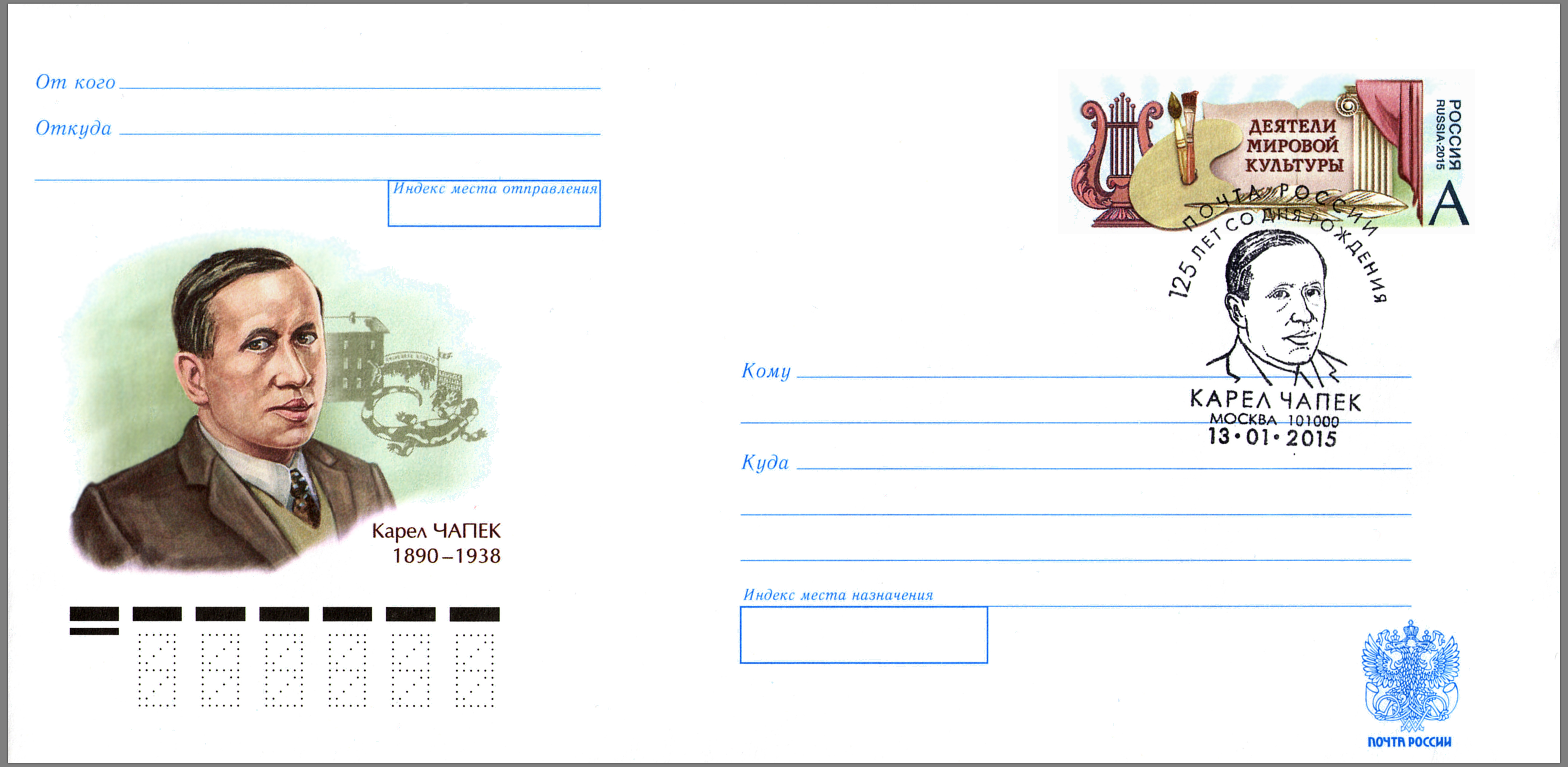 Figures of the World Culture (an ongoing series of postal stationery envelopes). The 125th birth anniversary of Karel Čapek (1890—1938), a Czech writer. The illustrated postal stationery envelope with commemorative stamp, Russia, 13 January 2015. PTC Marka Catalogue No 267. Envelope paper VBM (ВБМ) with watermarks “ПОЧТА РОССИИ”. Offset printing. Size of the envelope: 110×220 mm. Print run: 1,000,000. The non-denominated stamp of the ongoing series with symbols of arts (“Letter A”, for domestic letters, weight 20 g or less). The illustration: the portrait of Karel Čapek; the composition of illustrations for works by Karel Čapek (R.U.R., The Man Who Could Fly, War with the Newts). Pictorial cancellation: Moscow, 13 January 2015, Catalogue of PTC Marka No 2015/6-ш.